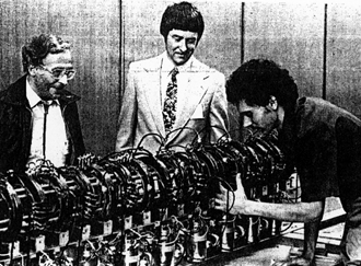 Gerard K. O'Neill with working mass driver model